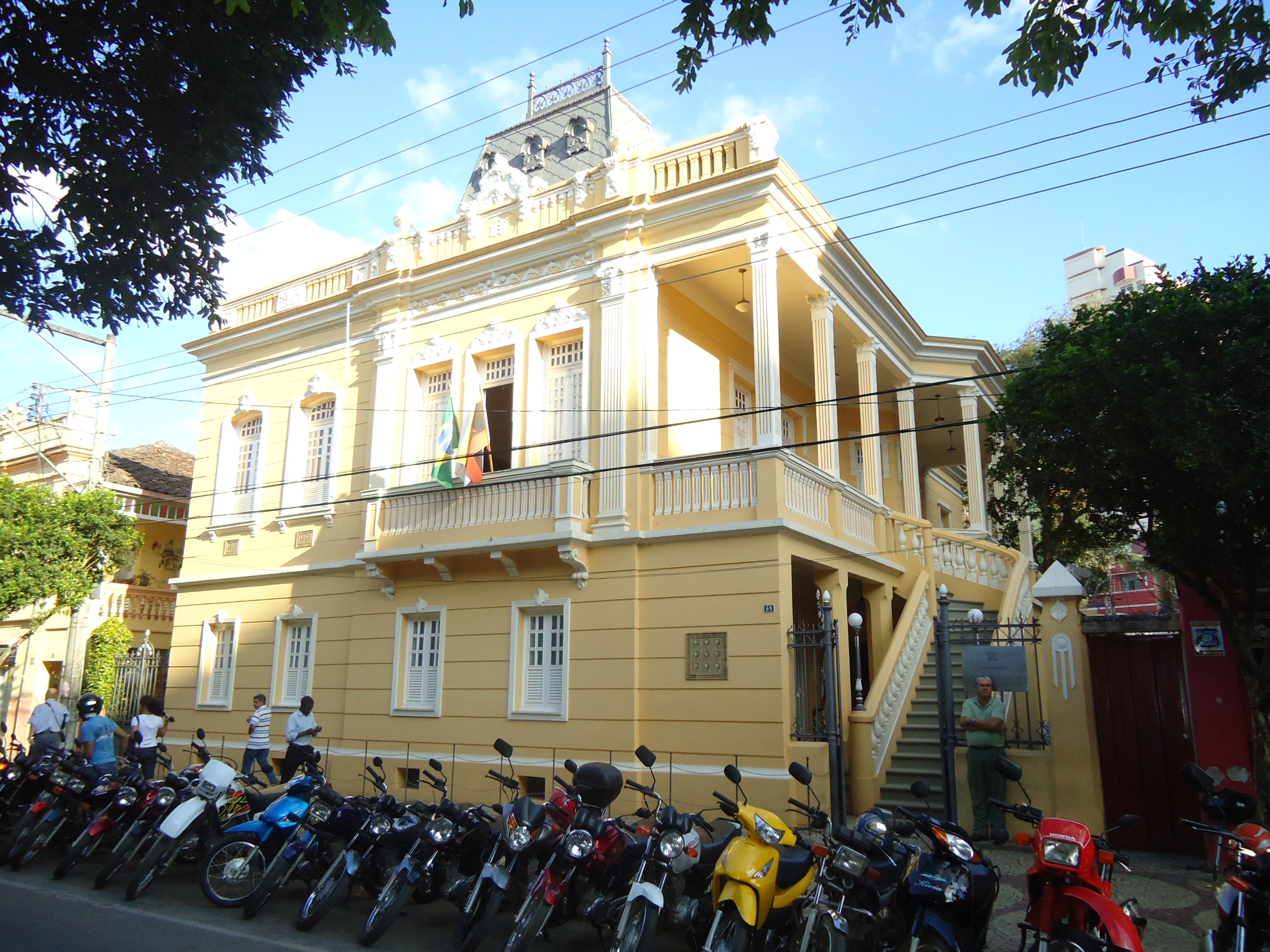 .House of the Arthur Bernardes